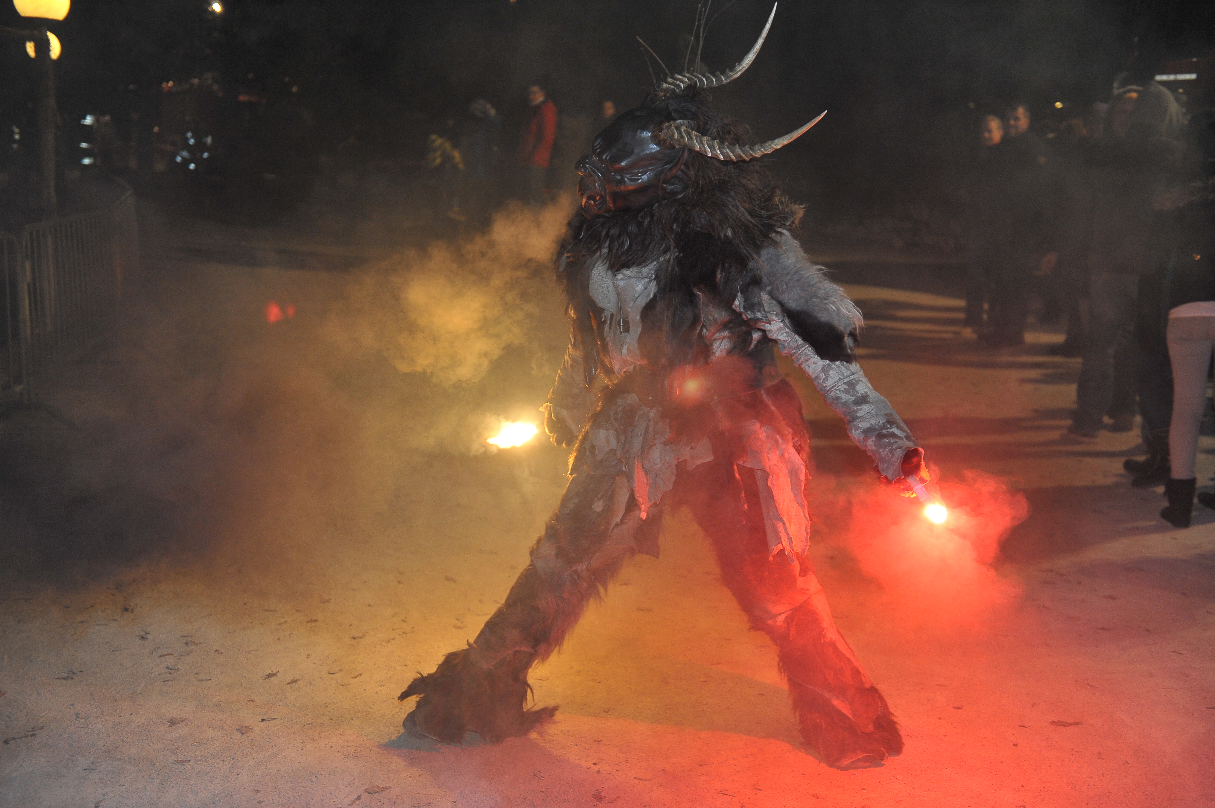 Krampus parade on the Johannes-Brahms-Promenade, municipality Poertschach on the Lake Woerth, district Klagenfurt Land, Carinthia / Austria / EU